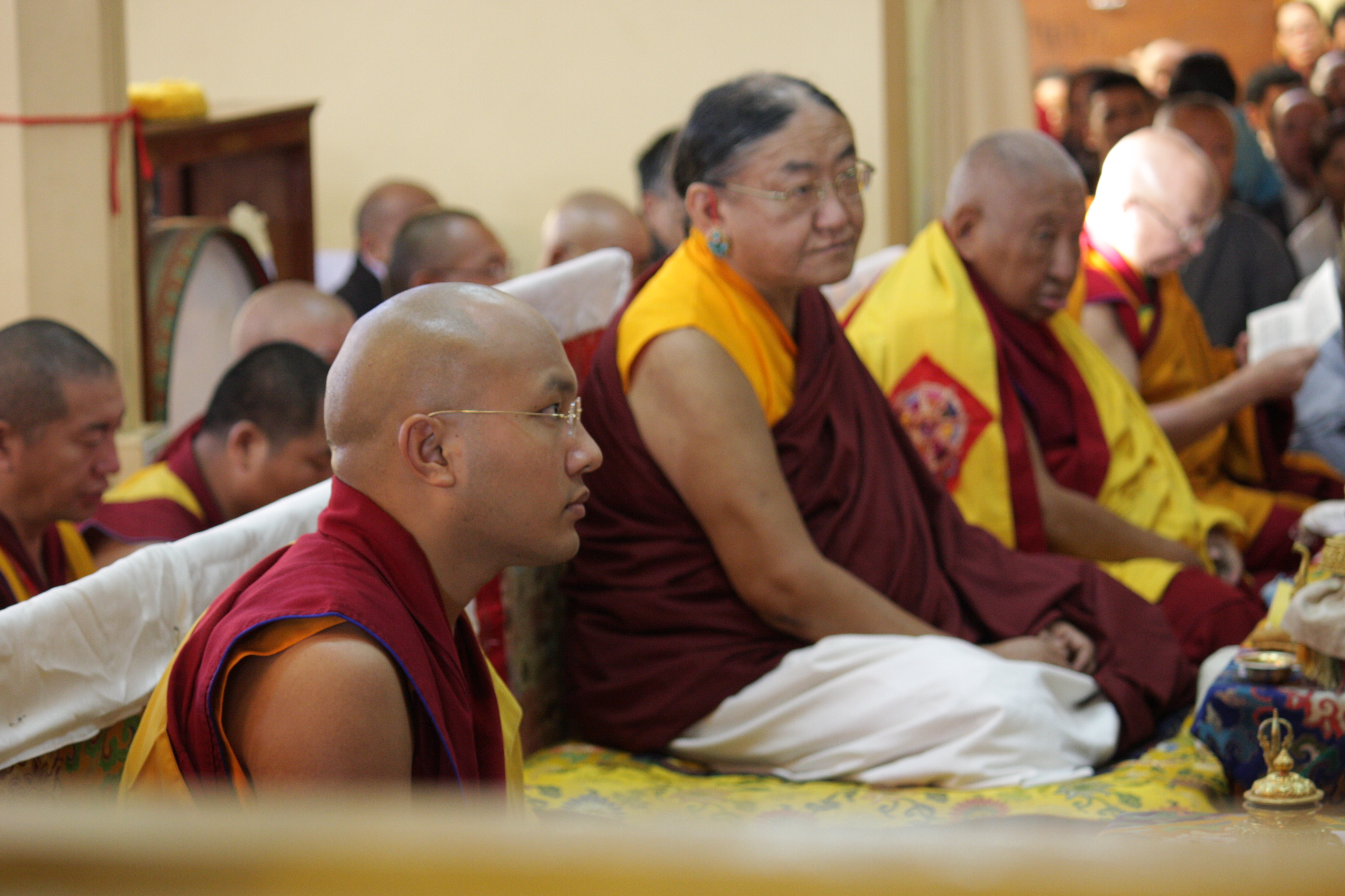 Long life prayer for H.H. Dalai Lama XIV